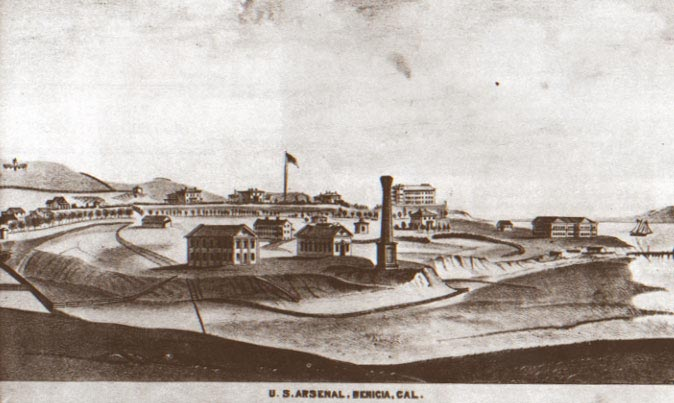 Benicia Arsenal in 1878. Benicia, Solano County, Northern California.